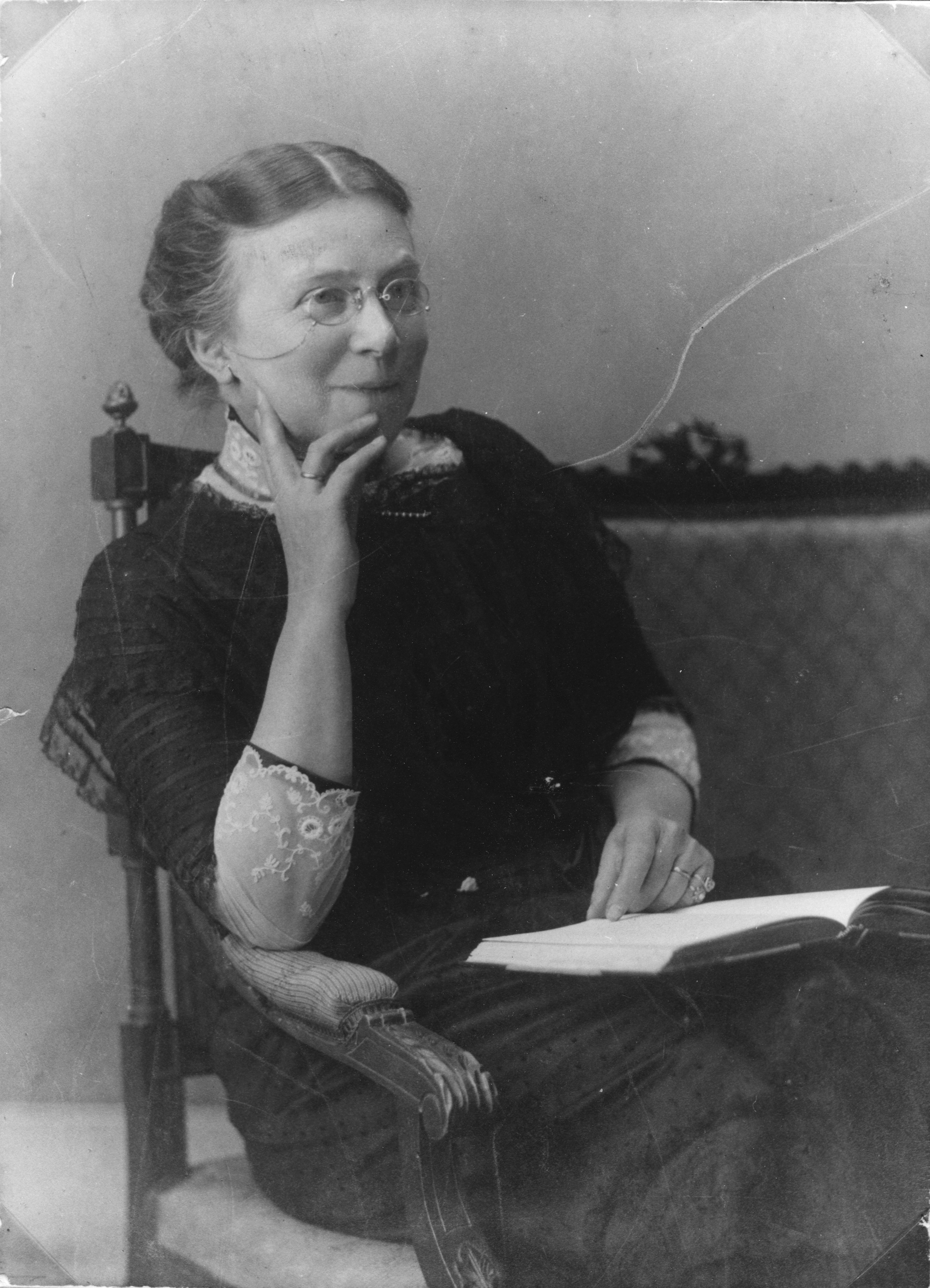 Portrait photo of Anna Antoinette Weber-van Bosse. Date unknown.